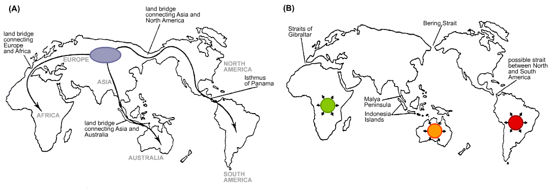 Created by Jerry Crimson Mann 10:07, 2 August 2005 (UTC).